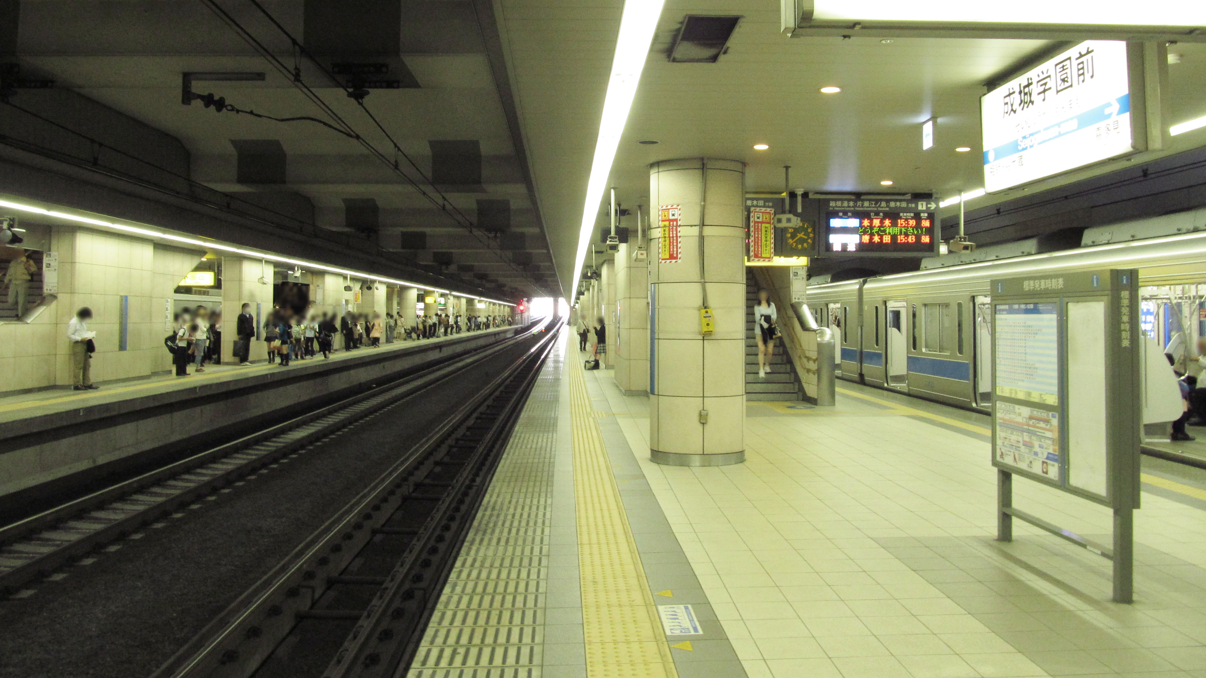 The platforms at Seijōgakuen-Mae Station on the Odakyū Electric Railway Odawara Line in Setagaya city, Tokyo, Japan